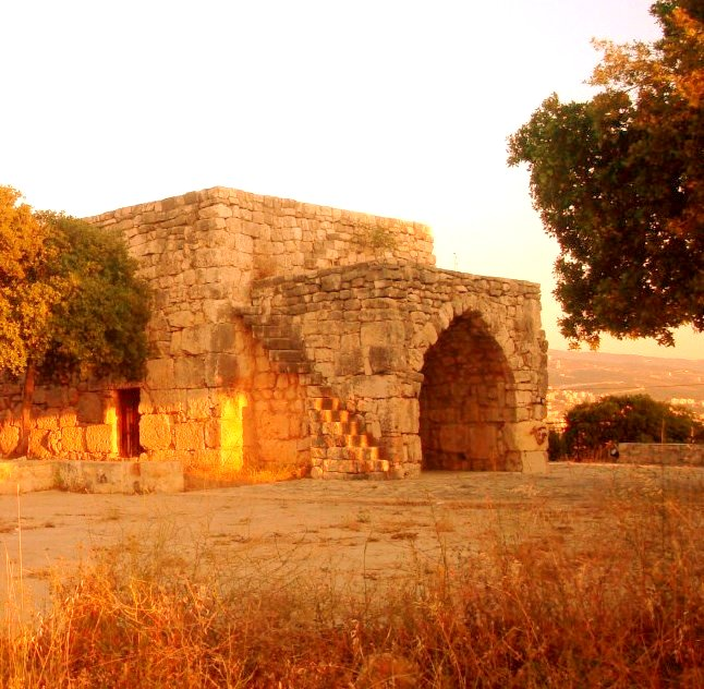 Saint Elisha Church in Edde Jbeil